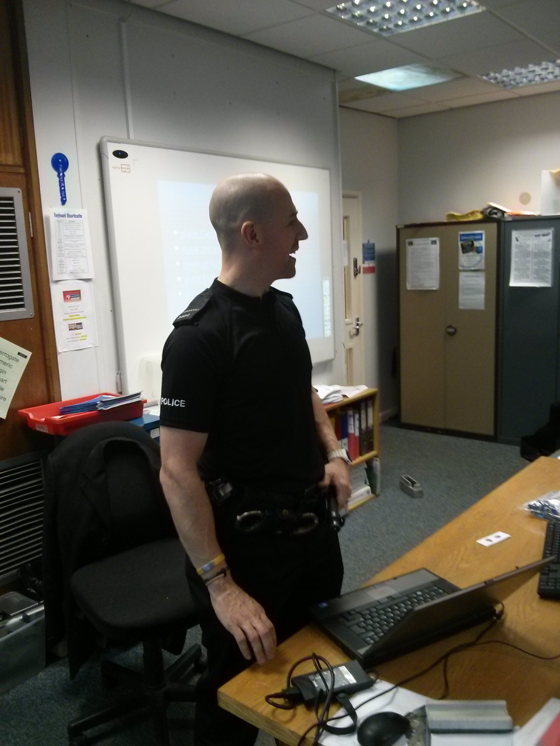 Tim draycott at woodlands school talking about online safety